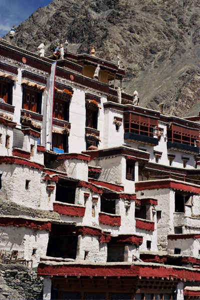 Rizong gompa, Ladakh, India